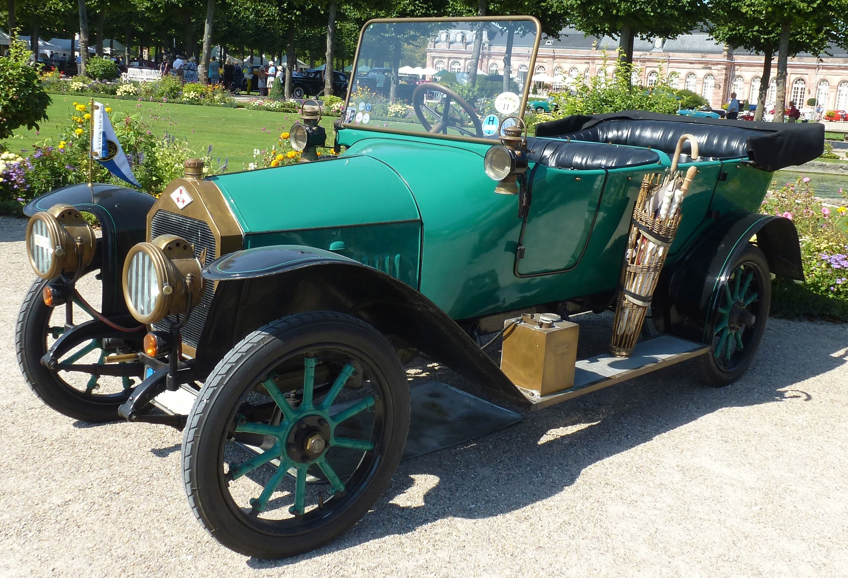 Ley Loreley L 4 1913